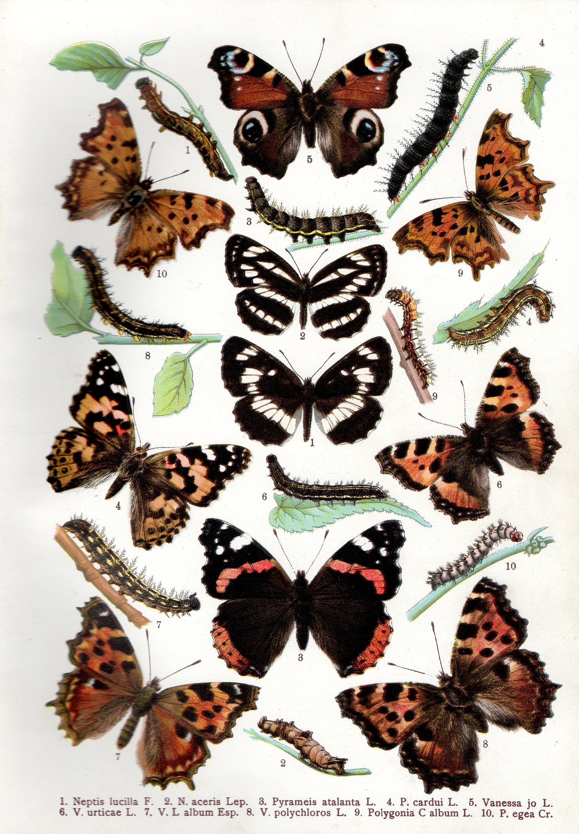 Table of Lepidoptera. From Joukl (1862-1910): "Motýlové a housenky střední Evropy" 1910.